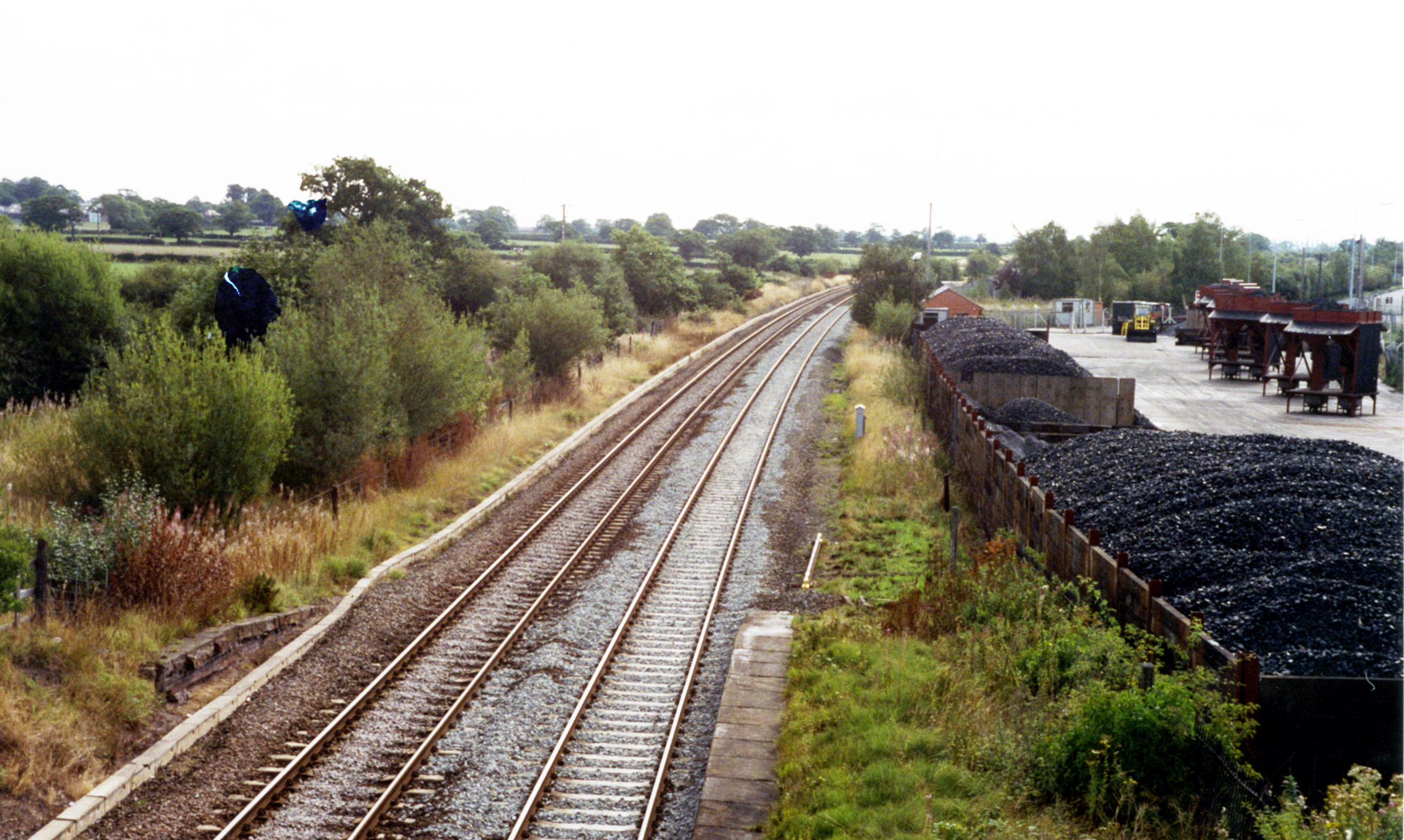 Site of former Calveley station, 1990. View SE from the A51 bridge, towards Crewe: ex-LNW Crewe - Chester main line. The station was closed to passengers 7/3/60, to goods 7/11/64.